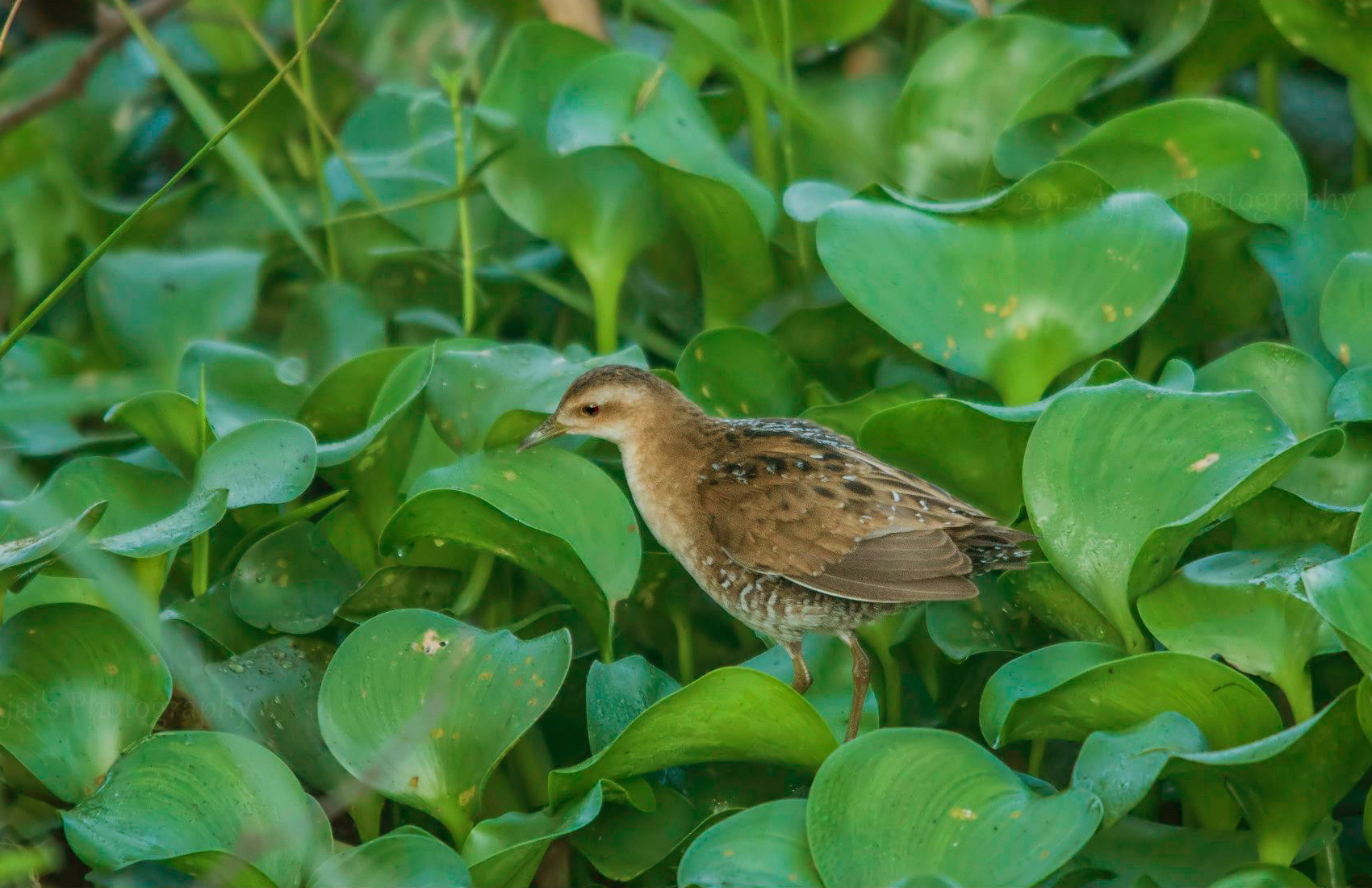 Baillon's Crake Porzana pusilla, Coimbatore, India, taken on 18-11-2011 07:23:00